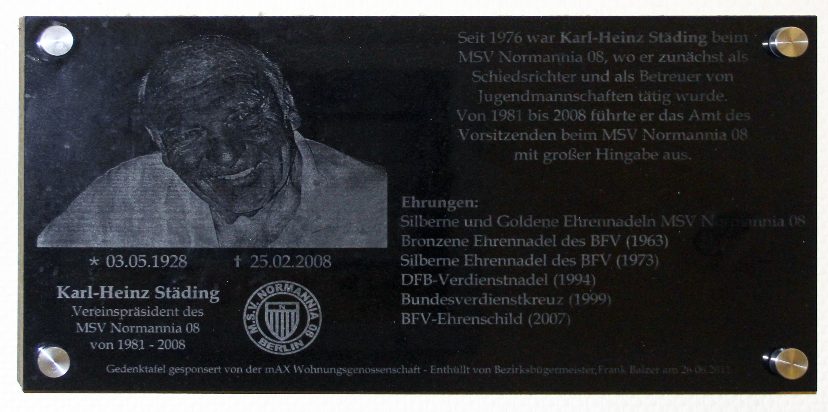 Memorial plaque, Karl-Heinz Städing, Welzower Steig 3, Berlin-Märkisches Viertel, Deutschland